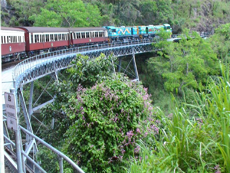 The Kuranda train, with colourful engine.